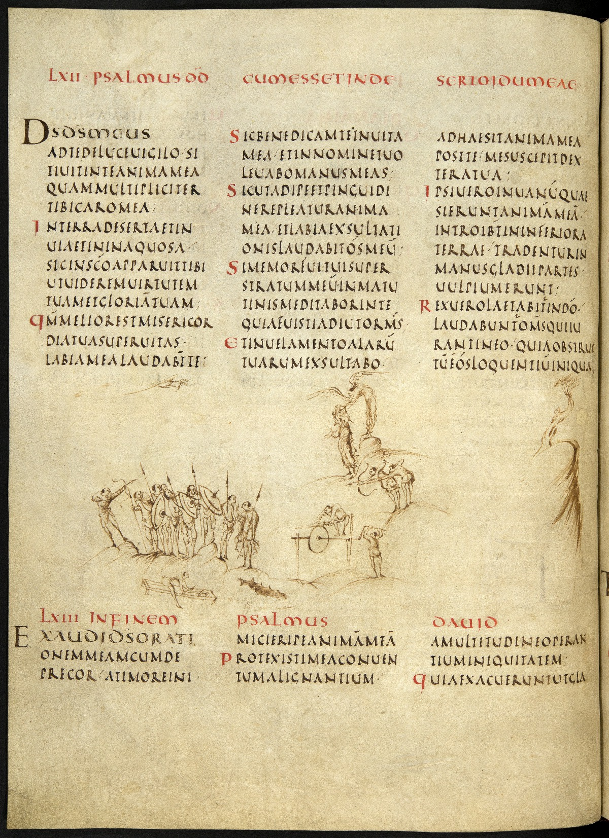 Utrecht Psalter, Utrecht University Library